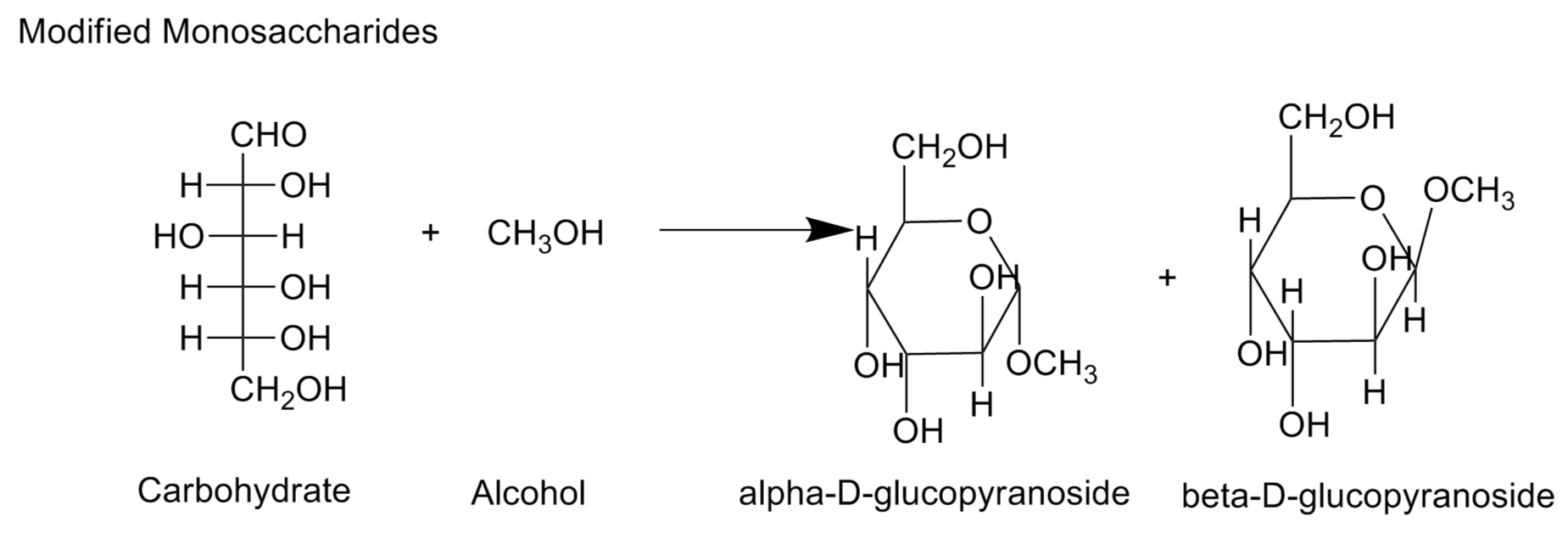 modified monosaccharides